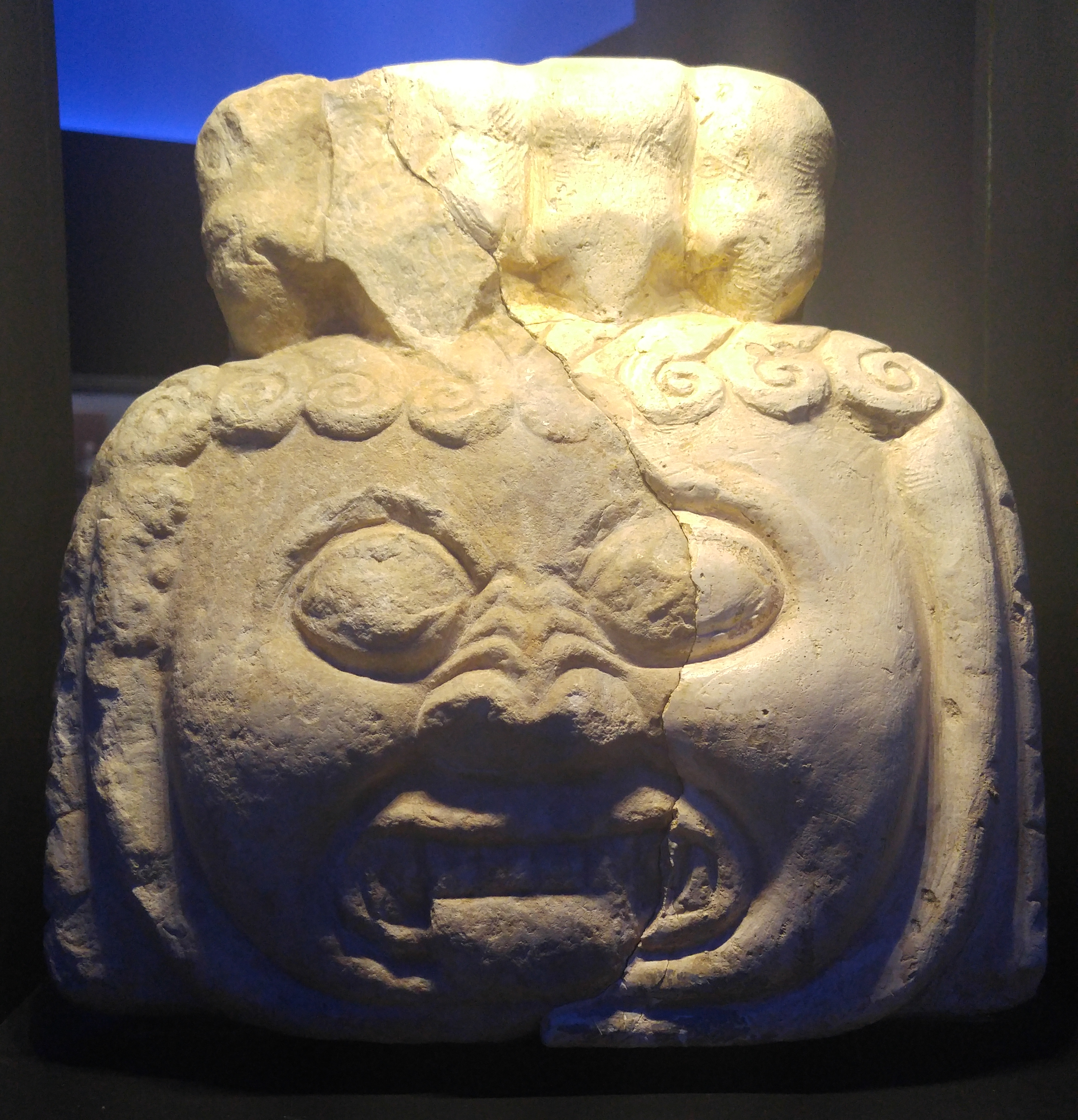 Gorgoneion, extracted form the walls of a house in the village of Alea, (Marble, about 600 B.C., Archaeological Museum of Tegea, exhibit 1311)